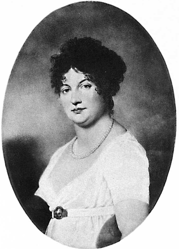 Maria Aleksandrovna Tiufiakina, 1749-1804